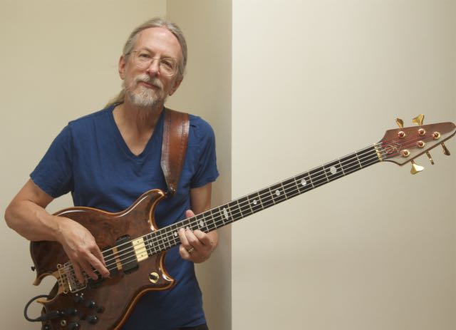 Self taken photo of Jimmy Johnson (Bassist) provided for free use in response to the "talk" suggestion that a photo be added to the wiki entry.